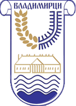 Coat of Arms of the city and municipality of Vladimirci, Serbia